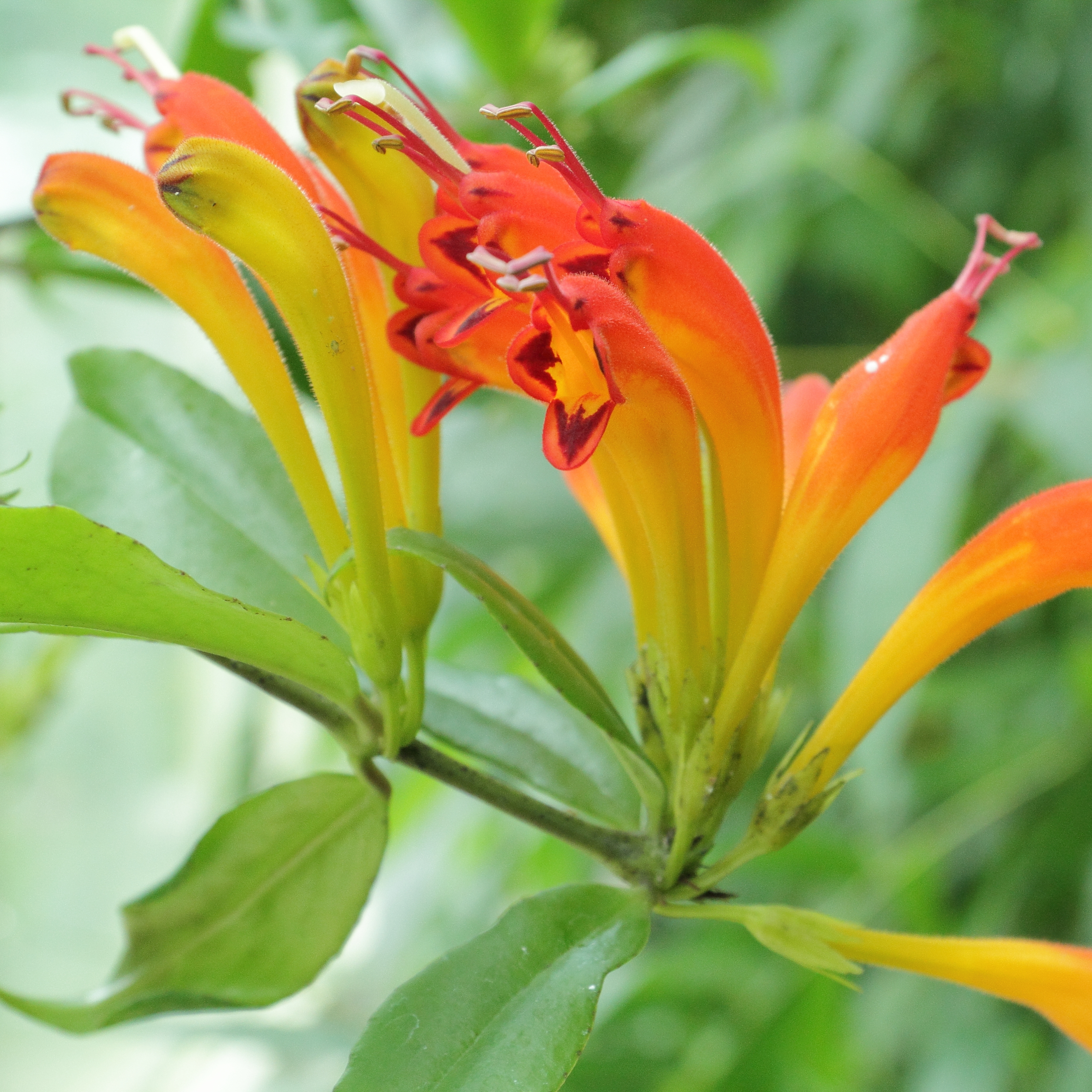 Aeschynanthus speciosus at Uppsala Botanic Gardens